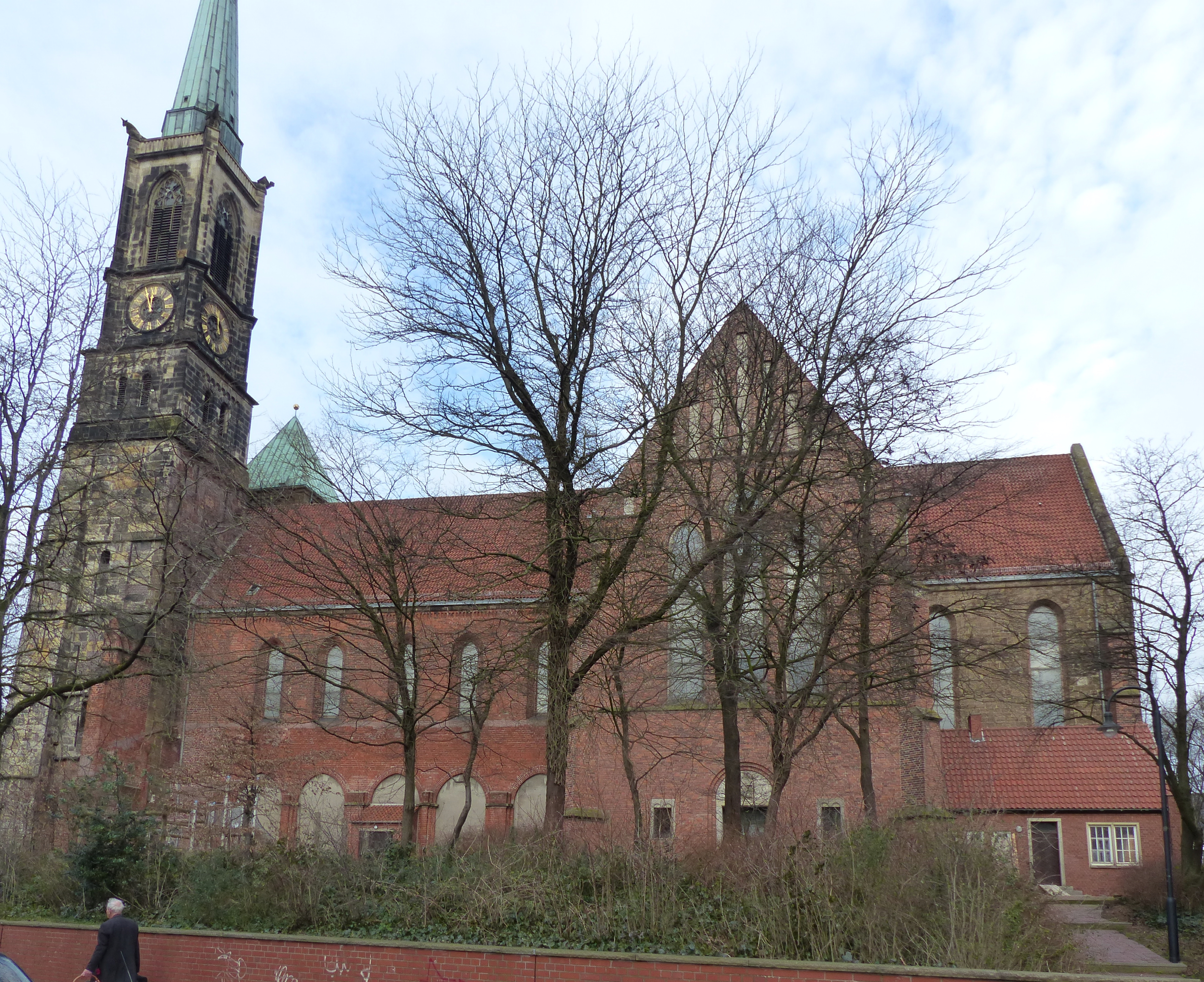 St. Stephani Church, Bremen, from the south (Großenstraße)